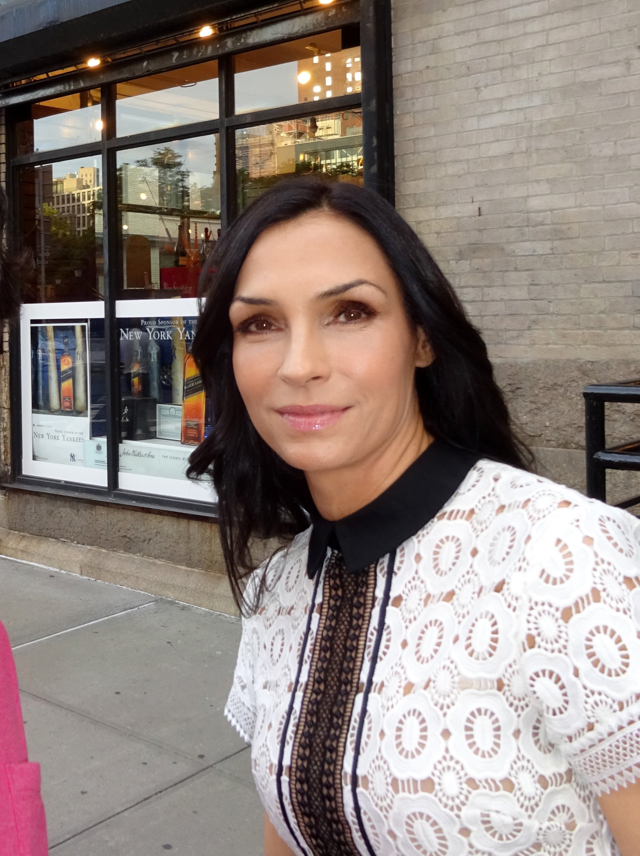 Star of X-Men, Goldeneye, and Taken. NYC. June 2016